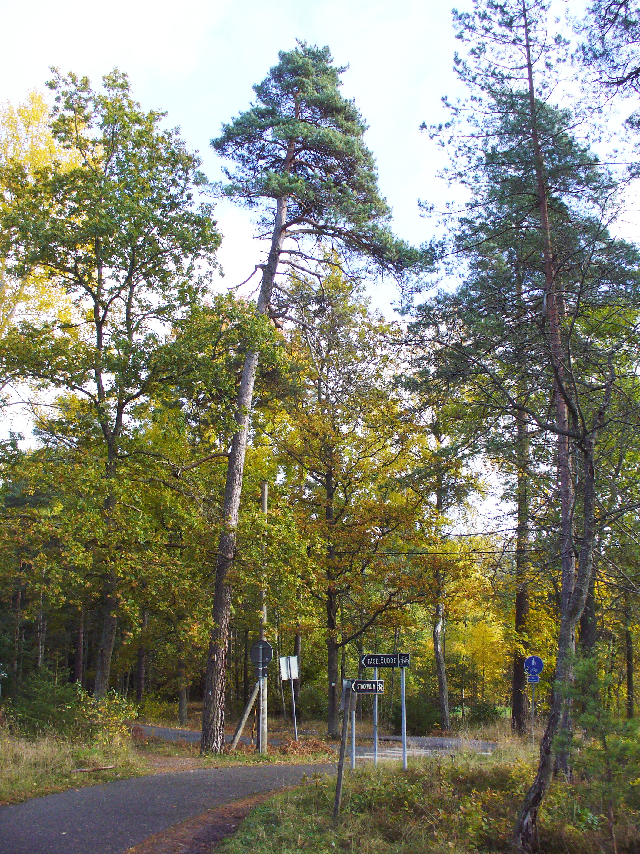 Road to Fågelöudde public beach, Lidingö, Sweden.